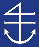 Blazon of Uttwil, Canton of Thurgau, SwitzerlandEsperanto: Blazono de Uttwil, Kantono Turgovio, Svislando